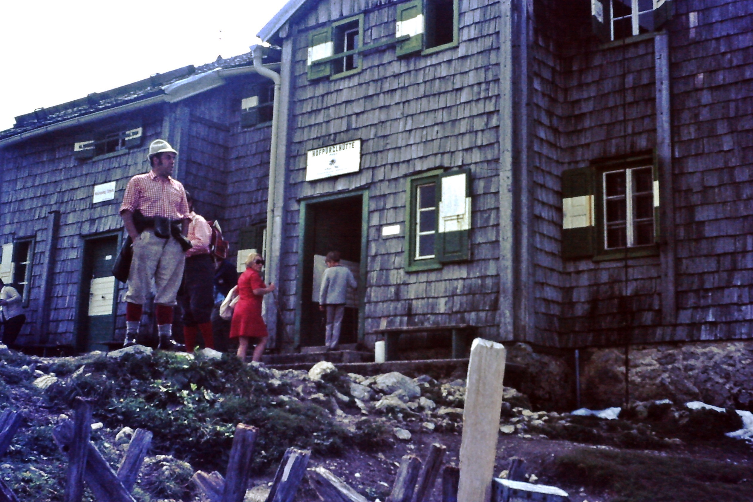 Main entrance of the Hofpürglhütte in Summer 1971